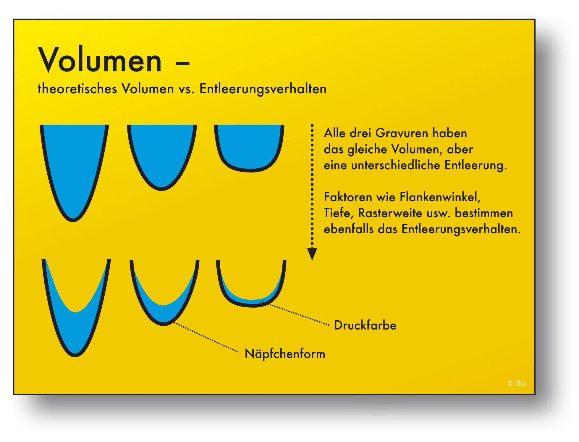 Anilox Roller – ink volume vs. ink release property